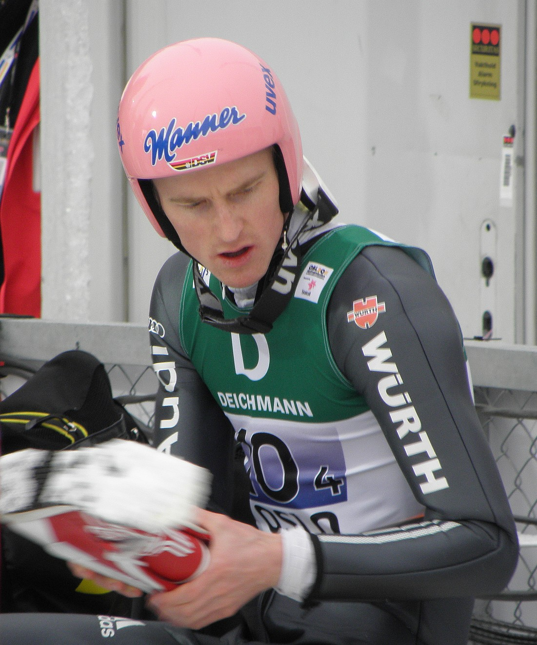 German skijumper Severin Freund at the FIS Nordic World Ski Championships 2011 in Oslo.